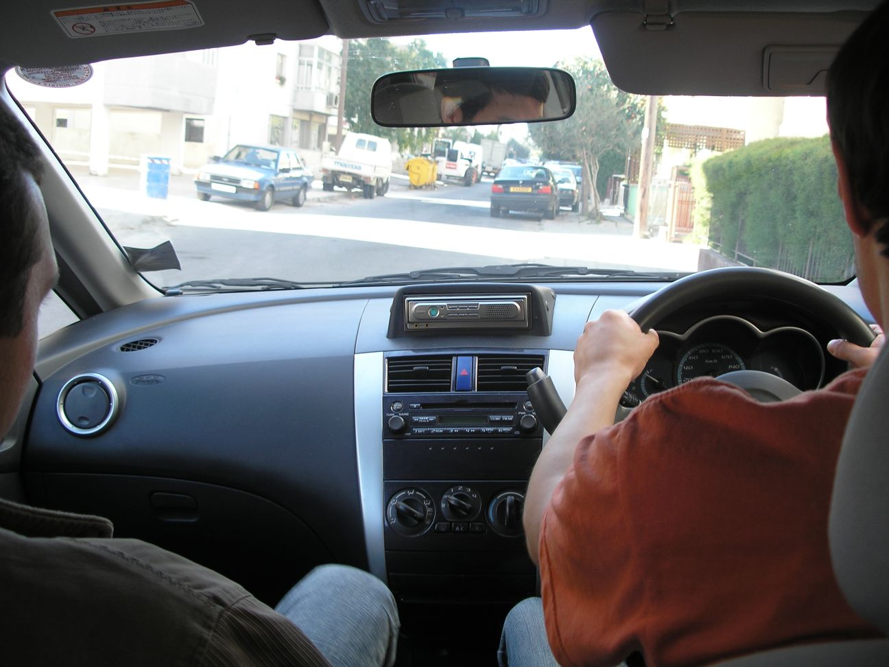 Vehicle with steering wheel on the right side.